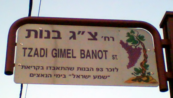 Street sign in Rishon Lezion.